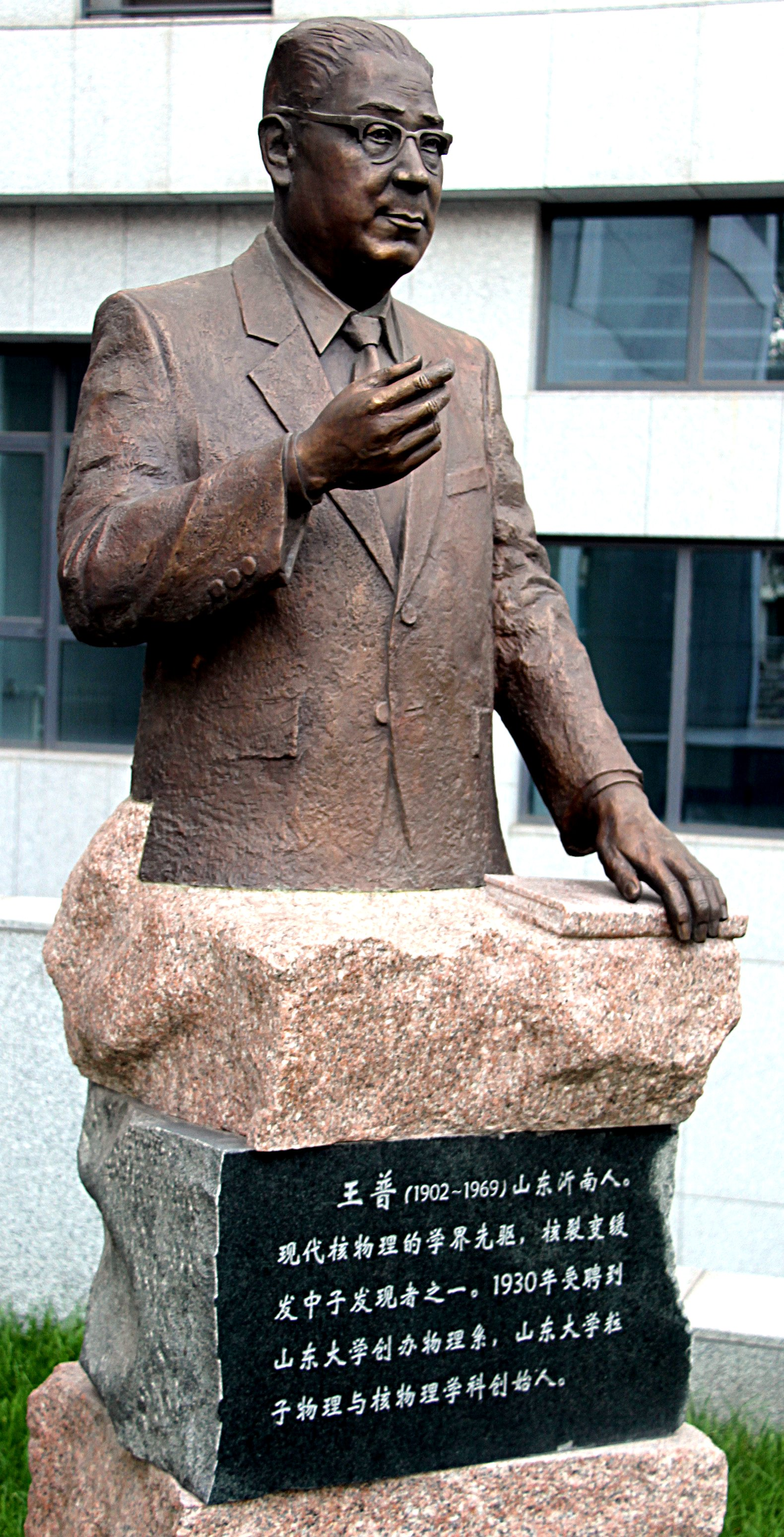 Photograph of a statue of the physicist Wang Pu on the Central Campus of Shandong University in Jinan, Shandong Province, China.